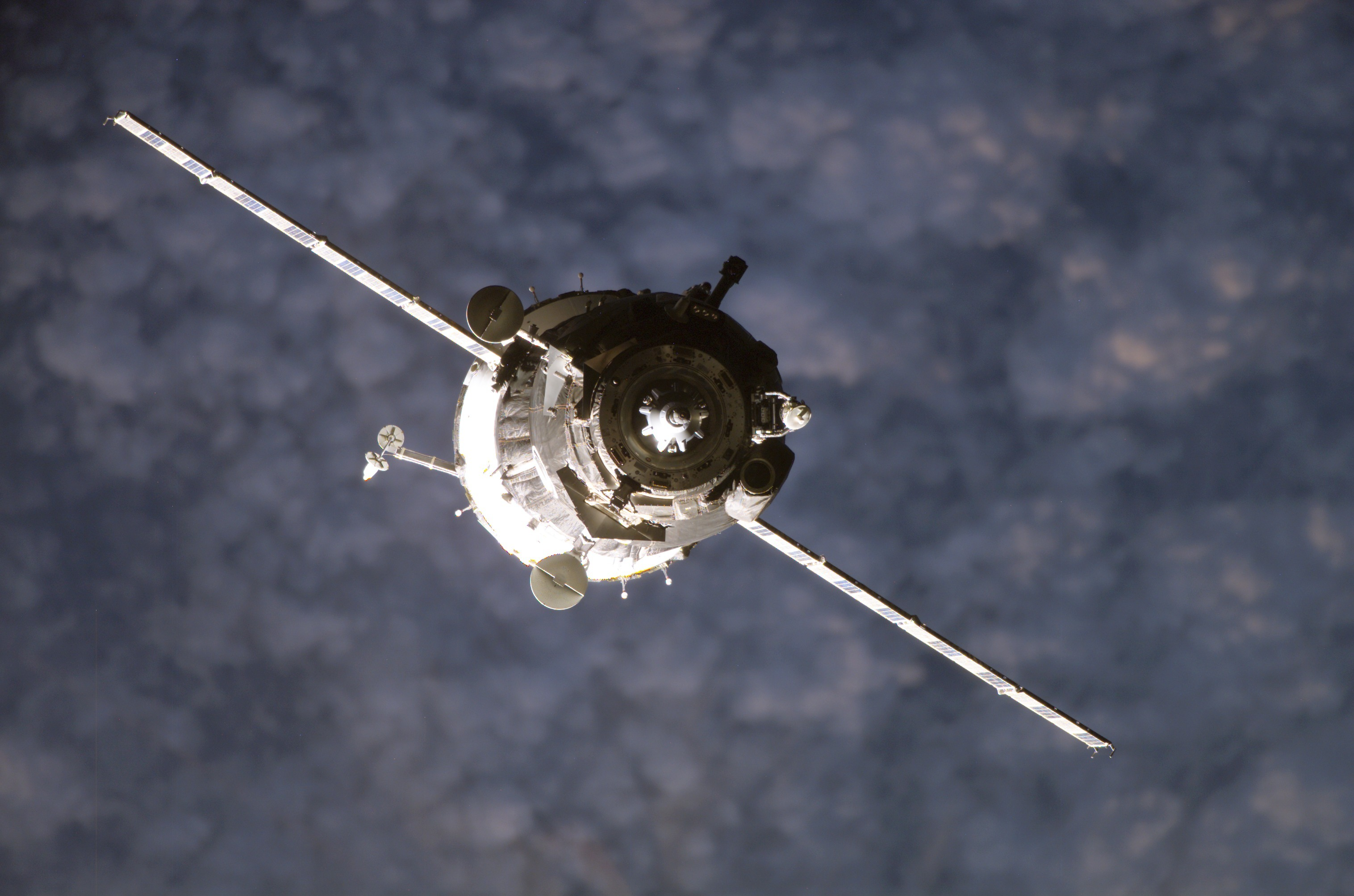 Backdropped by a cloud-covered Earth, the Soyuz 14 (TMA-10) spacecraft approaches the International Space Station. Onboard the spacecraft are cosmonauts Fyodor N. Yurchikhin, Expedition 15 commander; and Oleg V. Kotov, Soyuz commander and flight engineer, both representing Russia's Federal Space Agency; along with spaceflight participant Charles Simonyi. With Kotov at the controls, the Soyuz linked up to the Zarya module nadir port at 2:10 p.m. (CDT) on April 9, 2007. The docking followed Saturday's launch from Baikonur Cosmodrome in Kazakhstan.